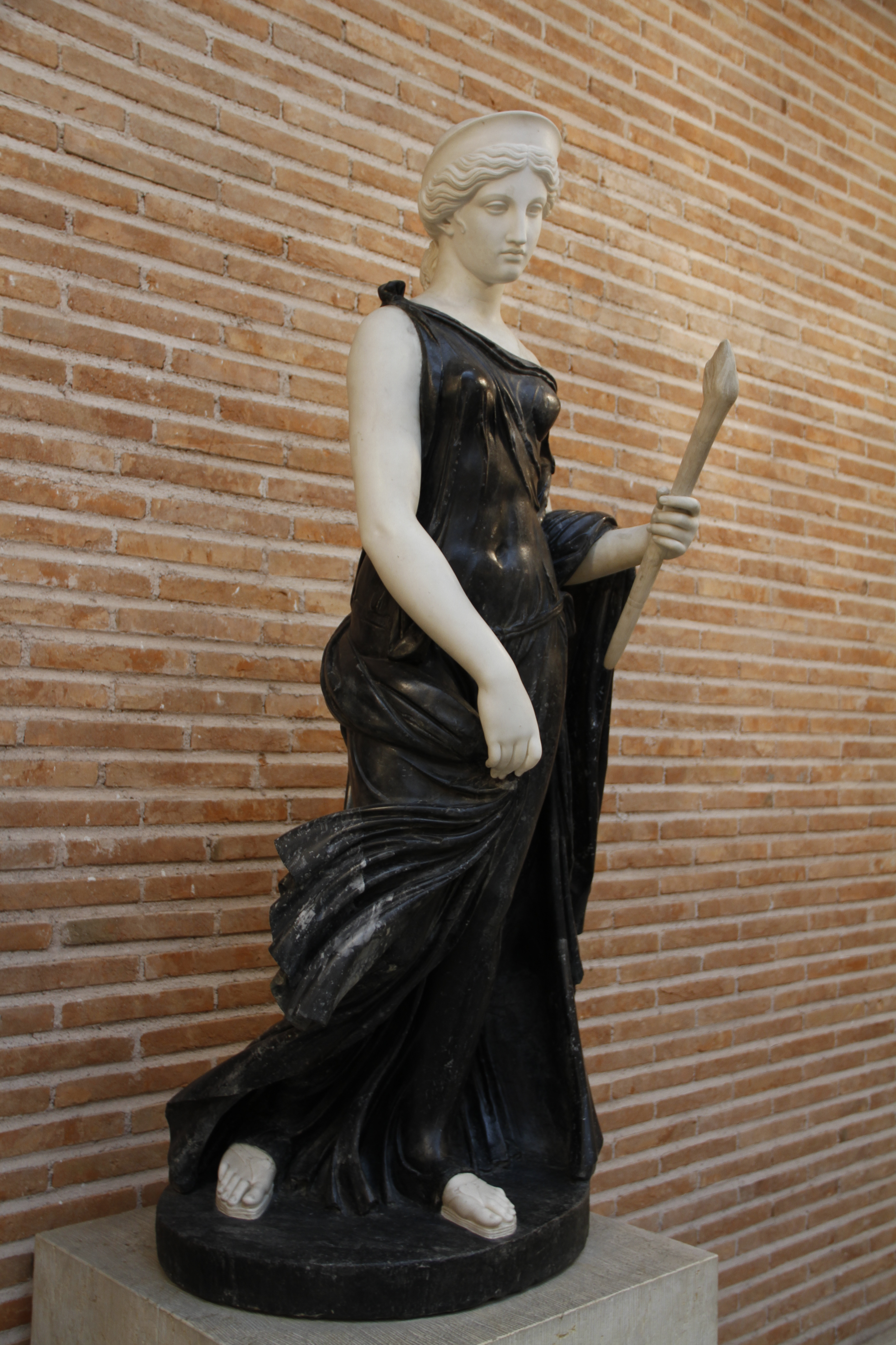 Nyx, Greek goddess of the night. Statue mounted by Ludwig Schwanthaler from pieces of an antique statue and his additions. The statue stands in the hall of Prinz-Carl-Palais, Munich, Germany